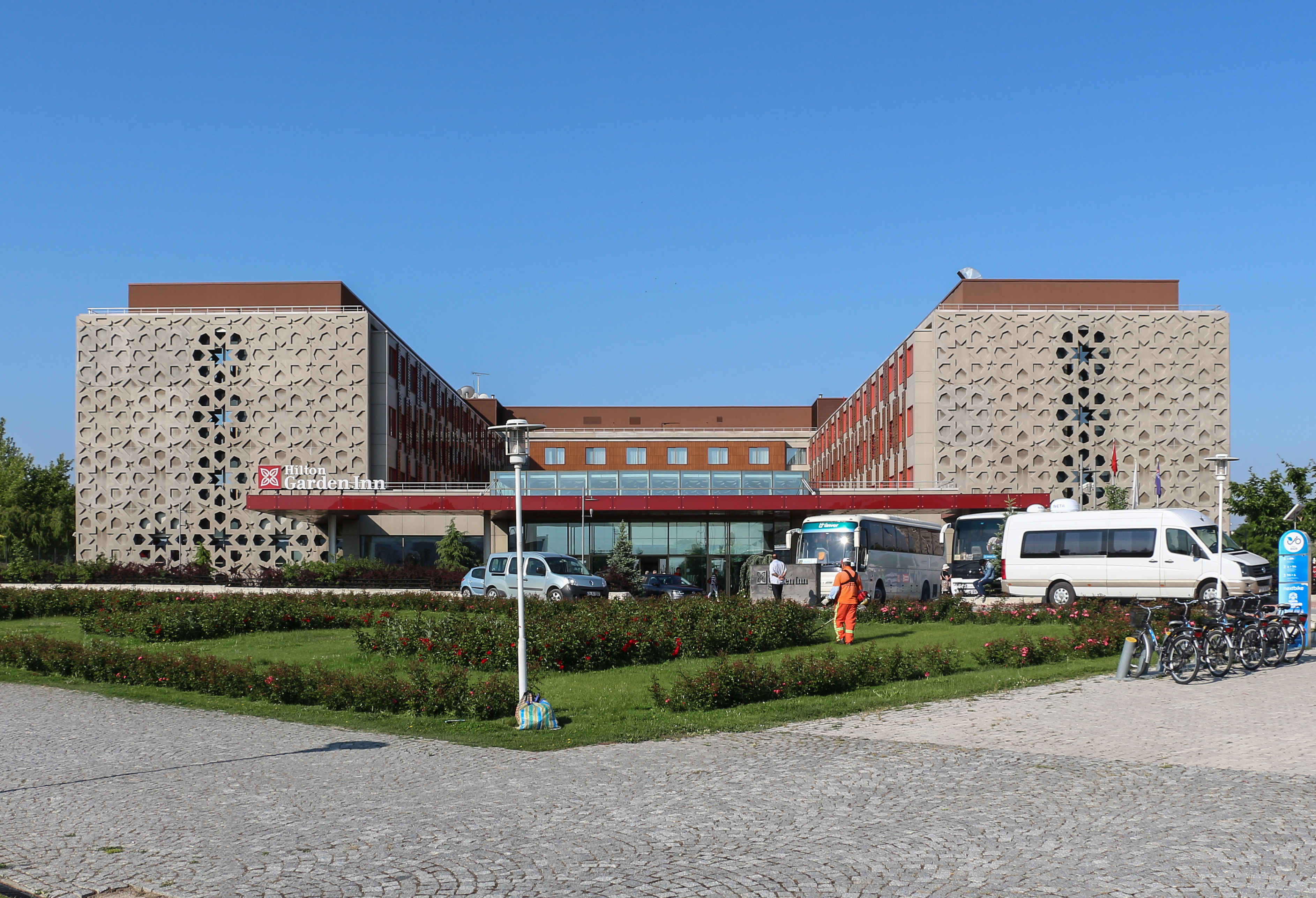 Hotel Hilton Garden Inn,_Konya, Turkey